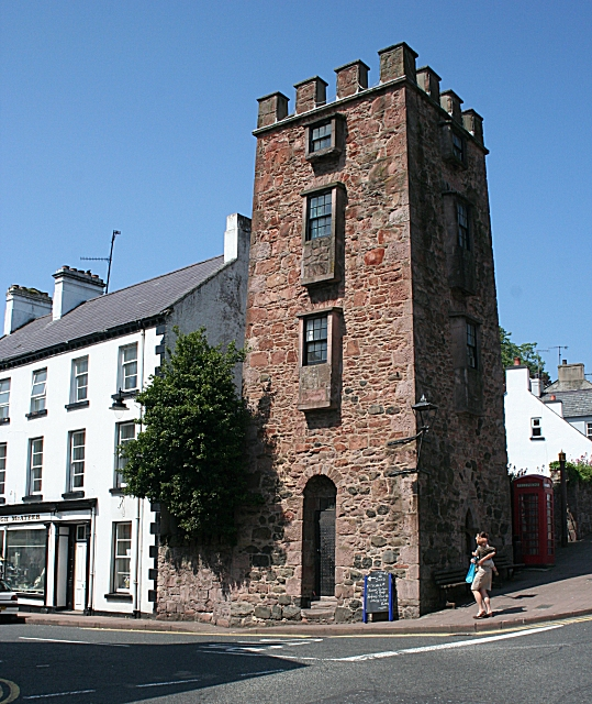 Curfew Tower Built as a jail 'for the confinement of idlers and rioters' in the early 19th century, the tower is said to have been based on one seen in China by the architect.